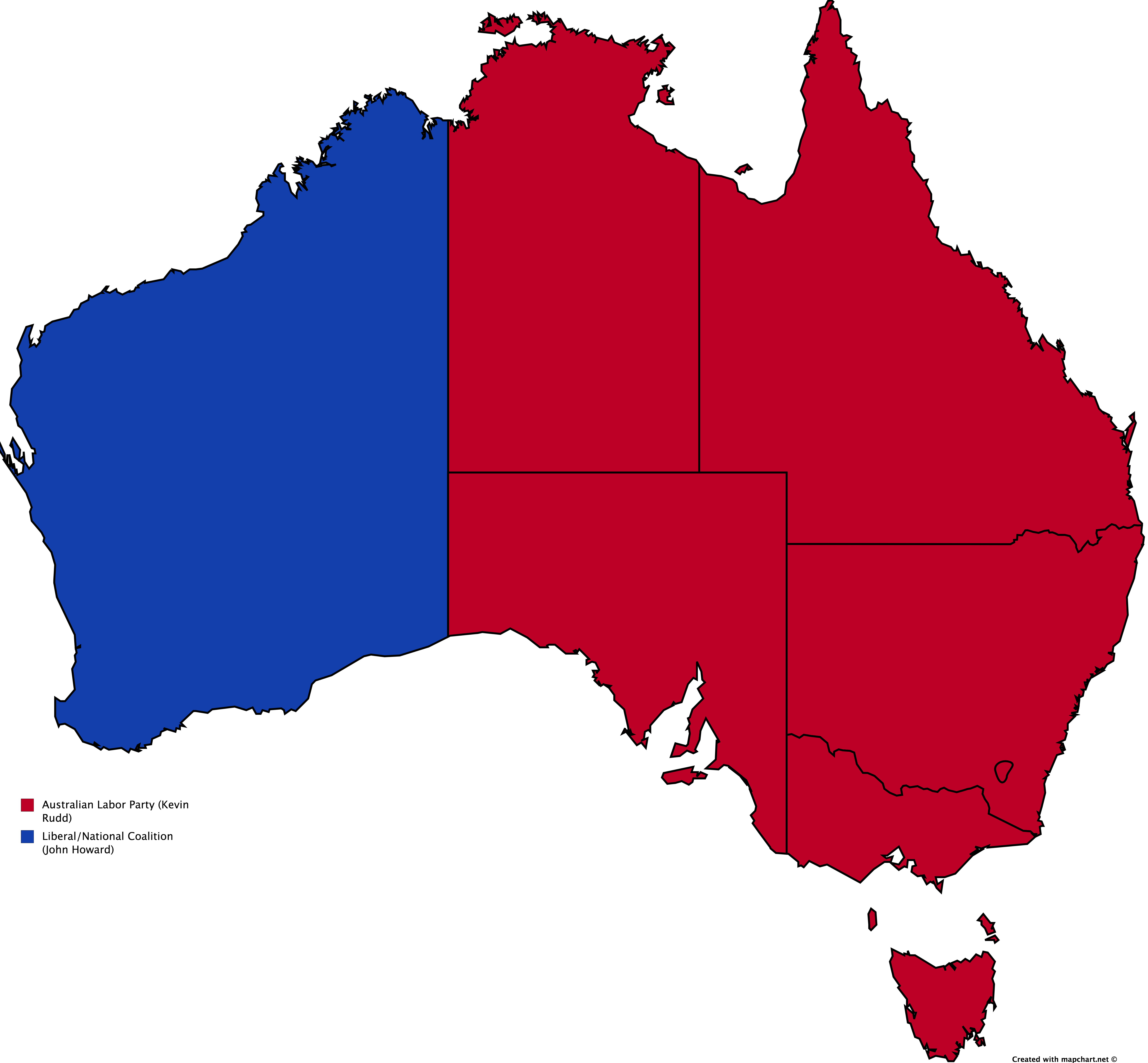 State Results, Popular Vote